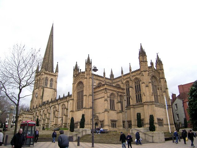 All Saints Wakefield Cathedral Started building in the 14th Century restored mid 19th Century by Sir George Gilbert Scott,became a Cathedral in 1888.